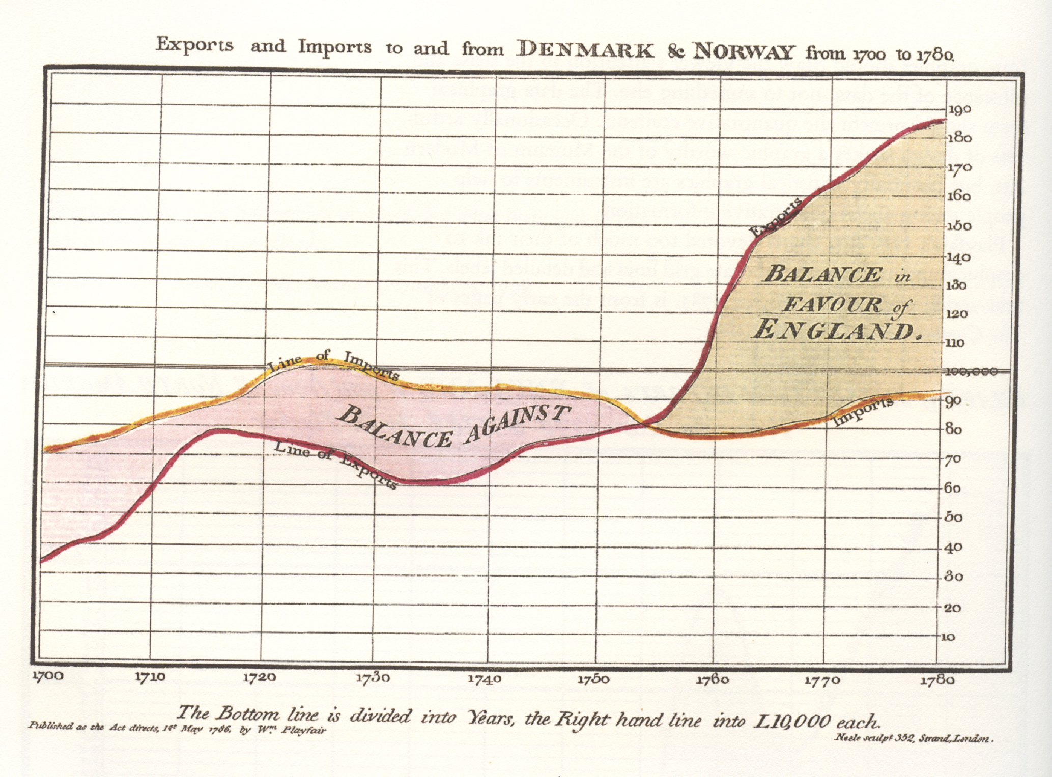 Time series graph of trade balances